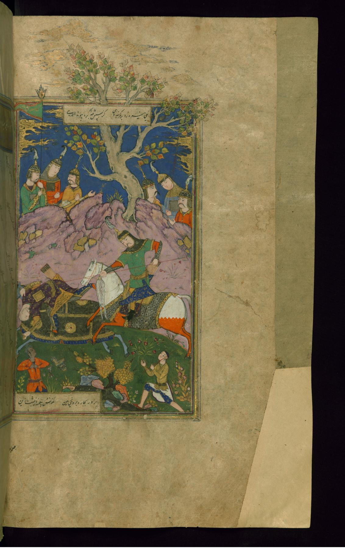 On this folio from Walters manuscript W.602, Zangah kills Javarjasp with a spear.